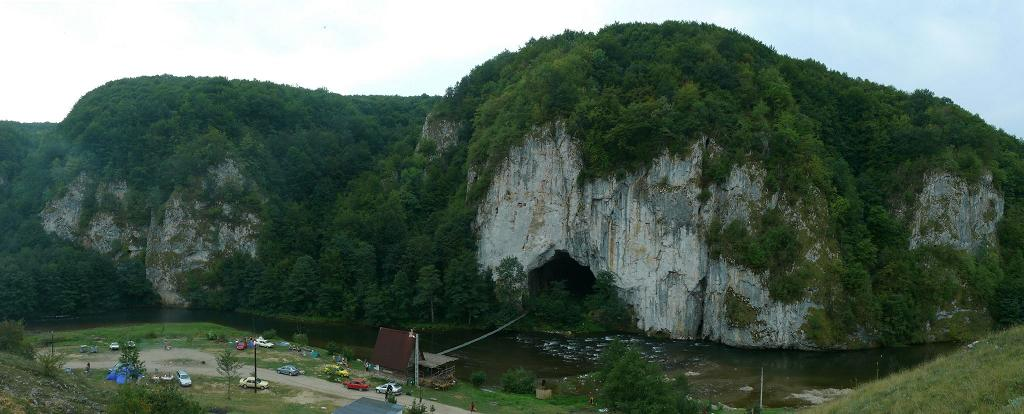 Bend of Crişul Repede by Şuncuiuş with the entrance of the Unguru Mare Cave.